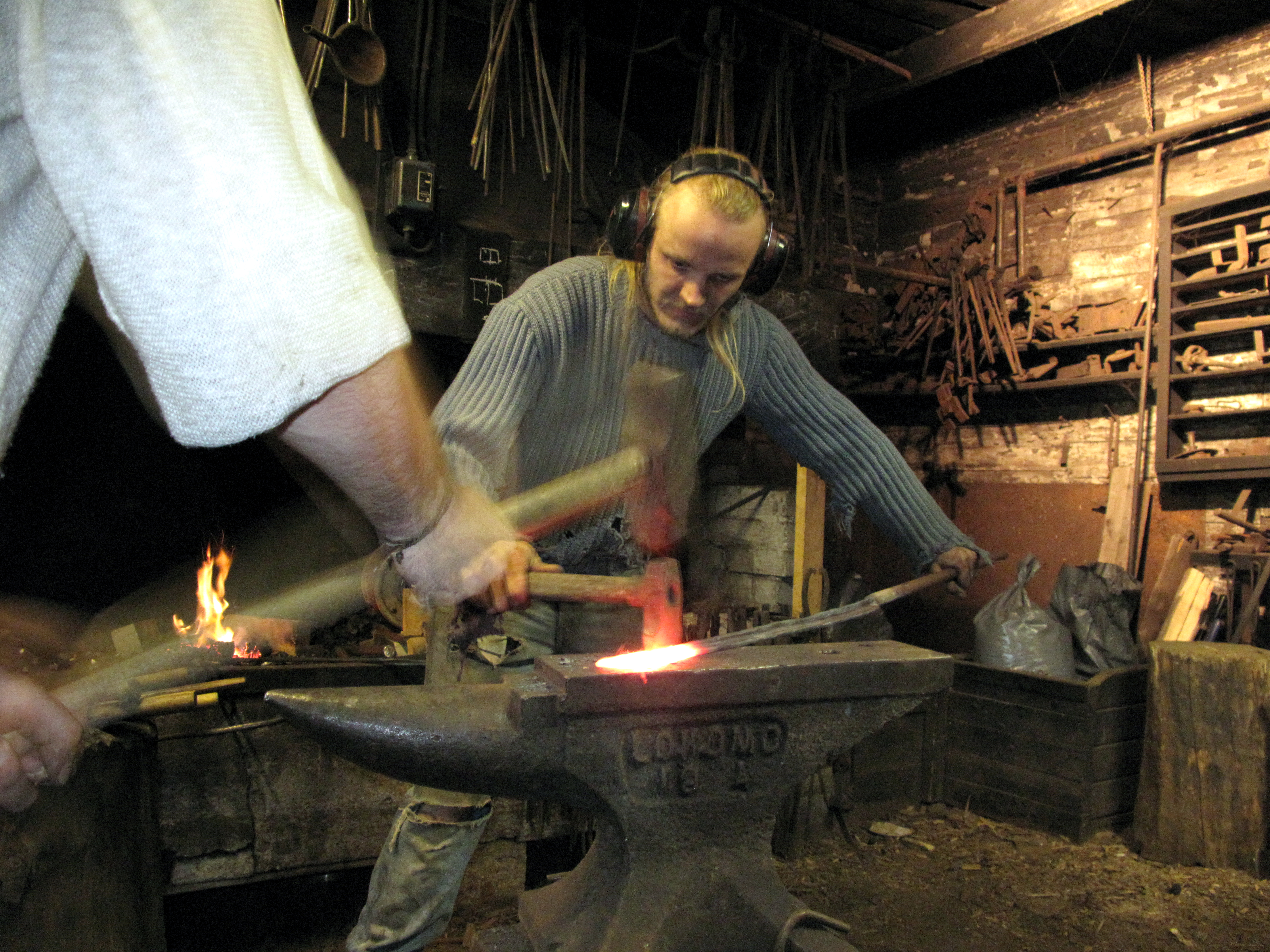 A typical smithy in Finland. Shot during a tourist trip to artist blacksmith Jesse Sipola's smithy next to lake Bodom. Tourist working to aid the smith in smithing by using a sledge.